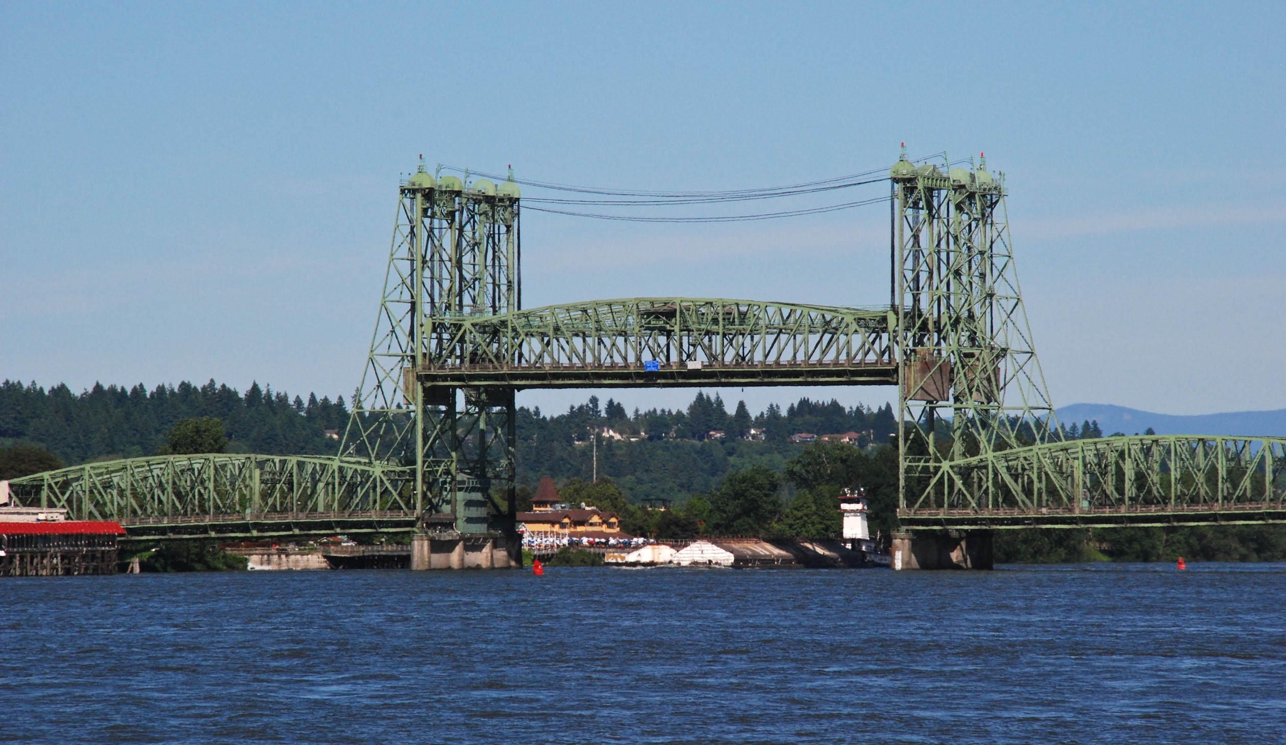 A barge passes under the two raised vertical-lift spans of the Interstate Bridge, across the Columbia River. The bridge carries the Interstate 5 freeway and connects Portland, Oregon with Vancouver, Washington. The Interstate Bridge is actually two bridges side by side: one built in 1916–17 and now used for northbound traffic only, the other a matching one built in 1957–58 and carrying southbound traffic only. This photo, taken from Hayden Island, in Oregon, shows the west side of the bridge (with southbound span closest), with Vancouver in the background. The lift spans are capable of being raised up to 136 feet (41.5 m) above the roadway, which is about 176 feet above the river at low water, but the river level was much higher than normal at the time this photo was taken.